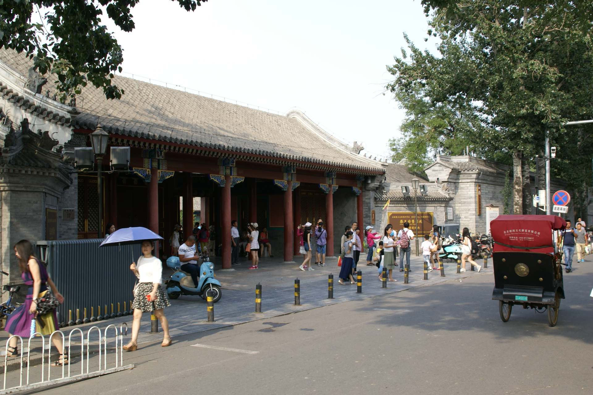 Entrance to Prince Gong's Mansion at Qianhai Xijie (Qianhai West Street) - Beijing, 17.8.2014